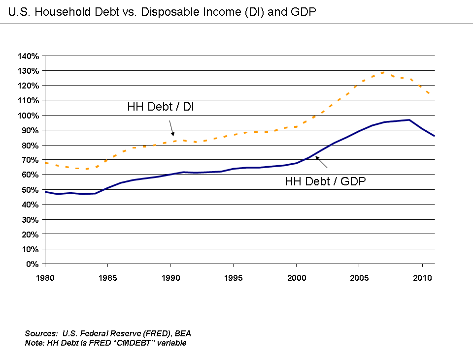 U.S. Household Debt Relative to Disposable Income and GDP 1980-2011